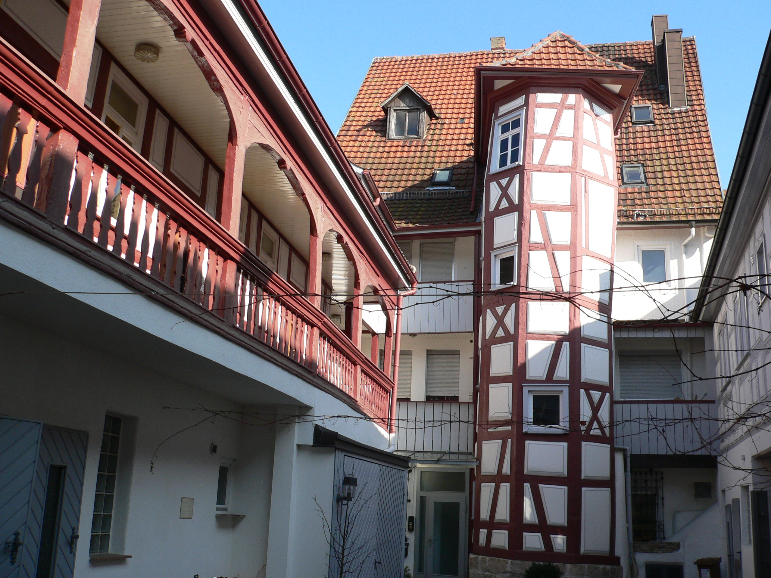 Half-timbered House in the Alley "Marktstraße" of the City Neckarsulm